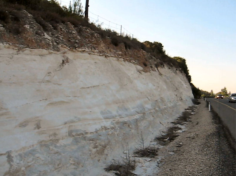 Chalk_with_cover_of_Caliche_Naari__and_Chert_lens__a_road_38.jpg